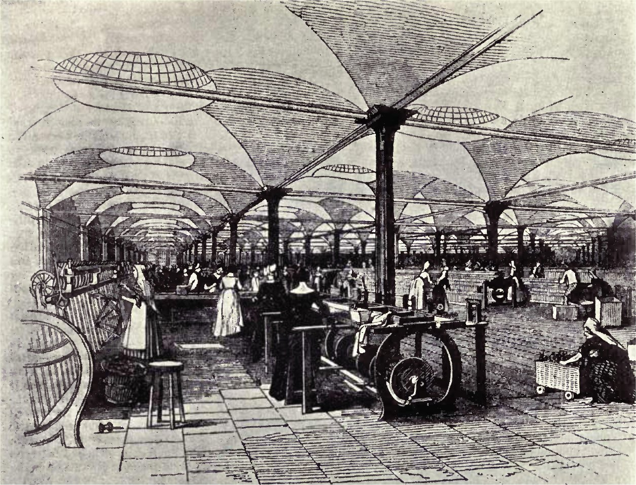 Drawing of Marshall's Mills, Holbeck showing operators at their machines. From the Penny Magazine Supplement, December 1843 "A Day at a Leeds Flax Mill".